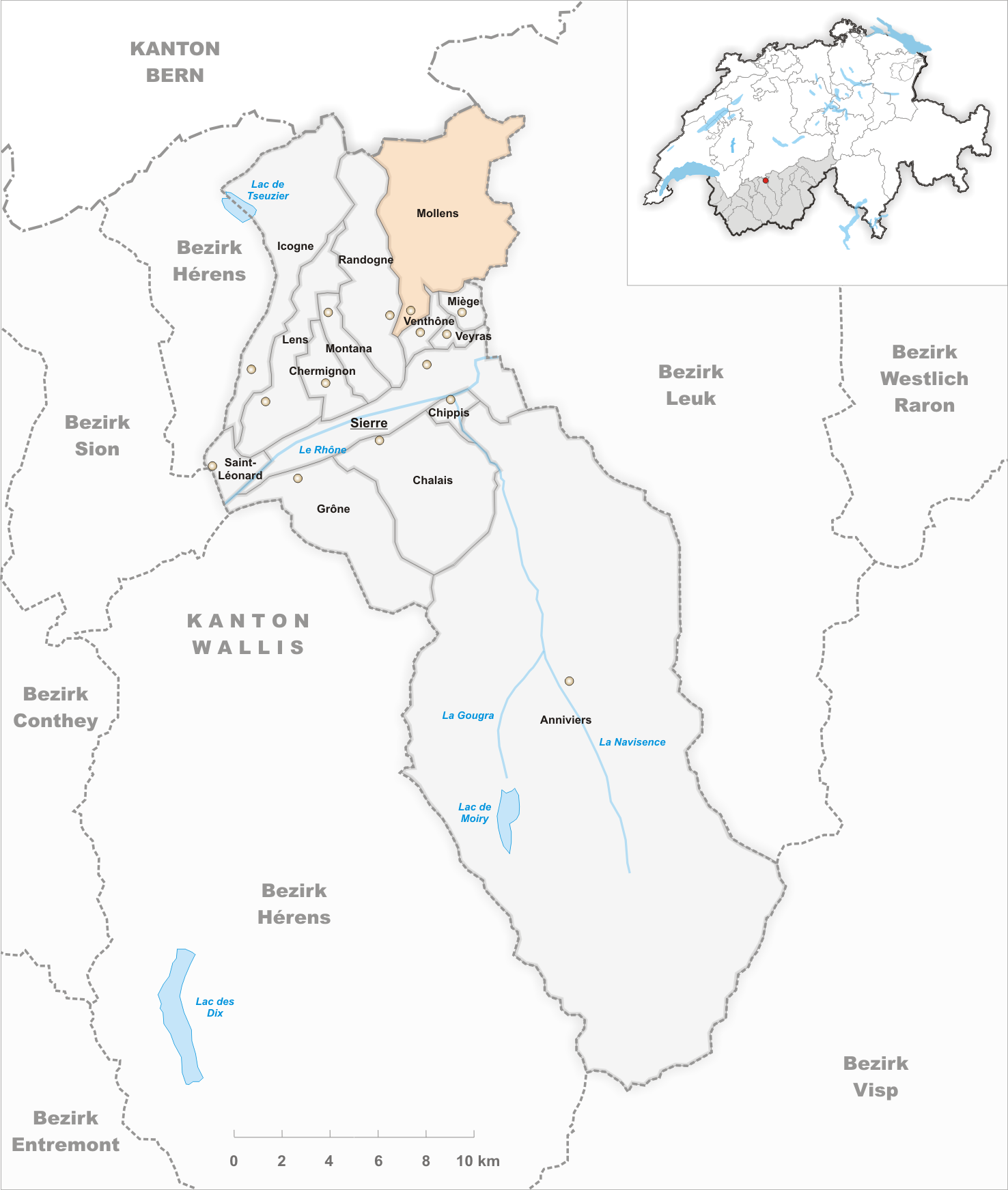 Municipality Mollens